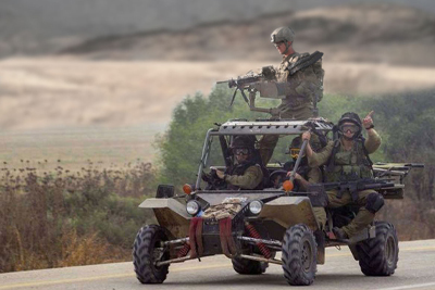 TOMCARs modular design makes it easy for any team in any branch of the military to customize on the fly to support any mission.